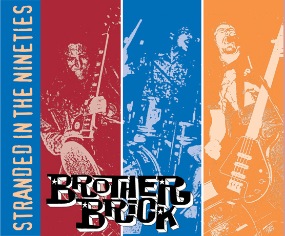 Front cover of Brother Brick comp cd